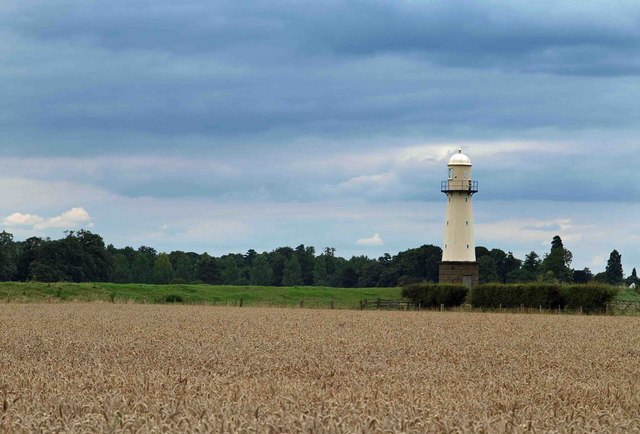 Whitgift lighthouse, Whitgift, East Riding of Yorkshire, England.Looks like it has had a coat of paint since last year.